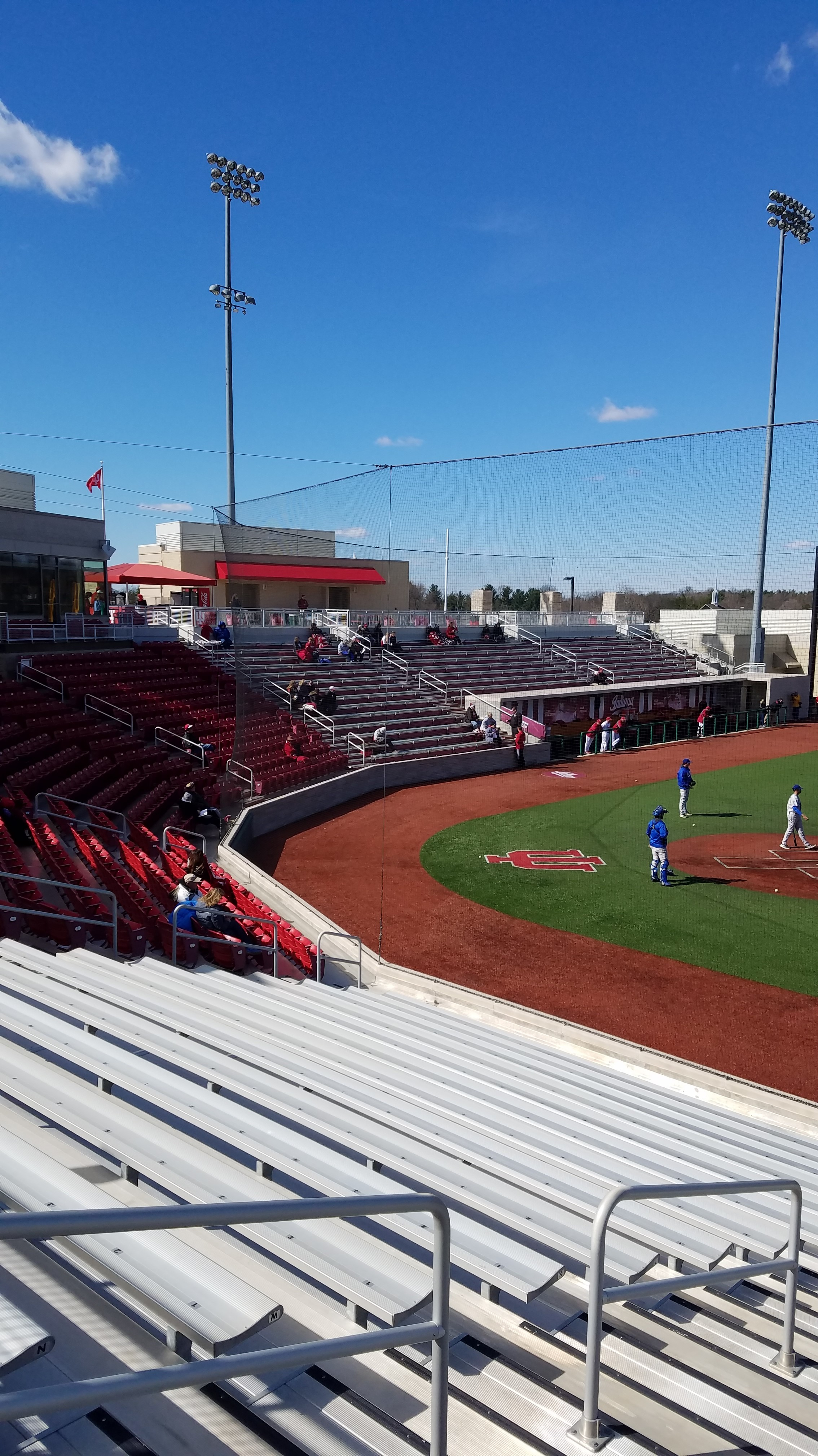 Main stands of Bart Kaufman field - Home of the Indiana Hoosiers baseball team